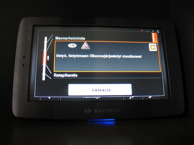 TMC message on Navigon 8110 navigator